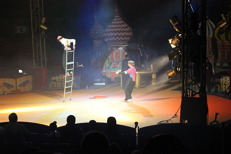 Moscow clowns (the usual pair, manic and depressive) ladder balancing act